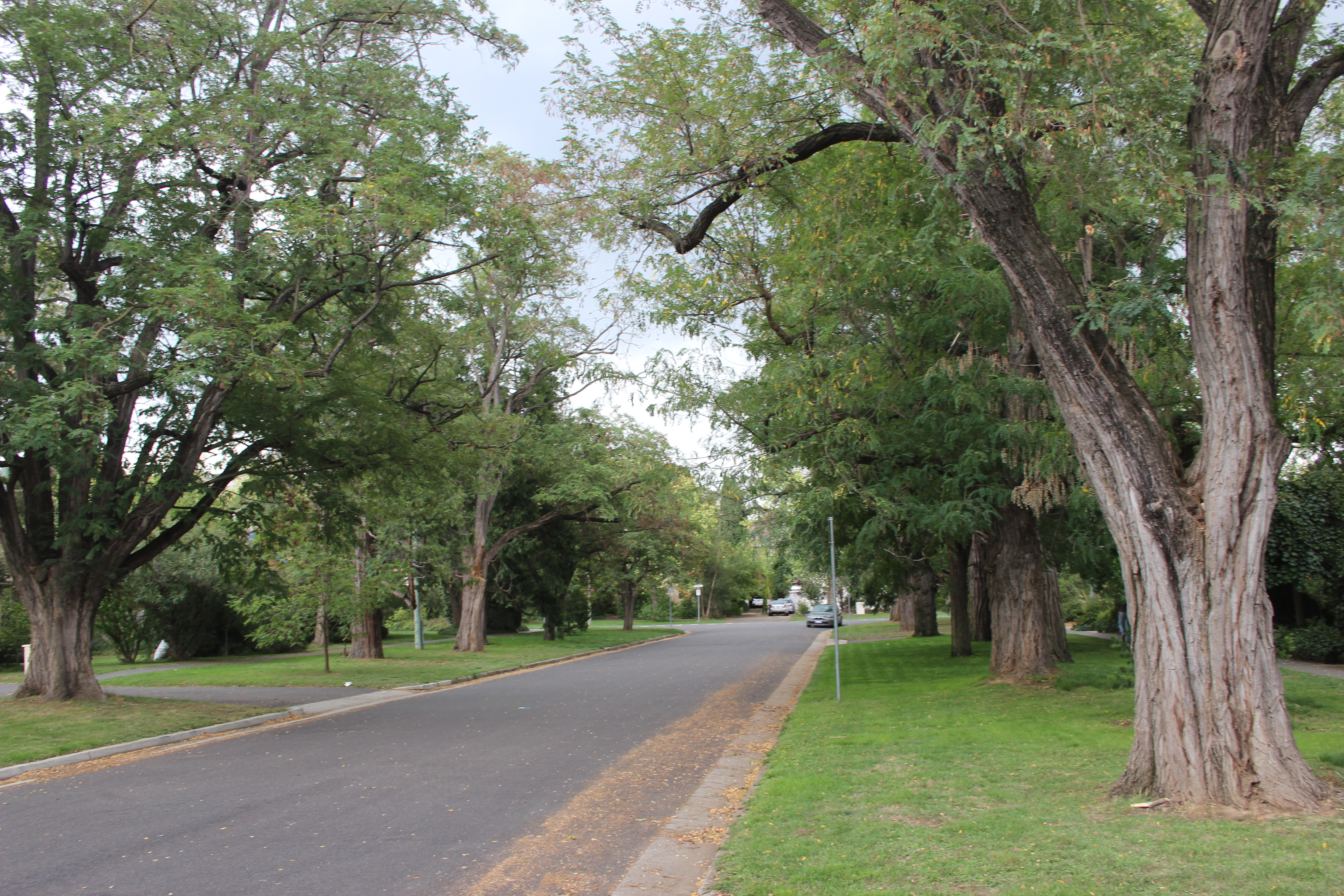 Gipps Street, Barton, ACT